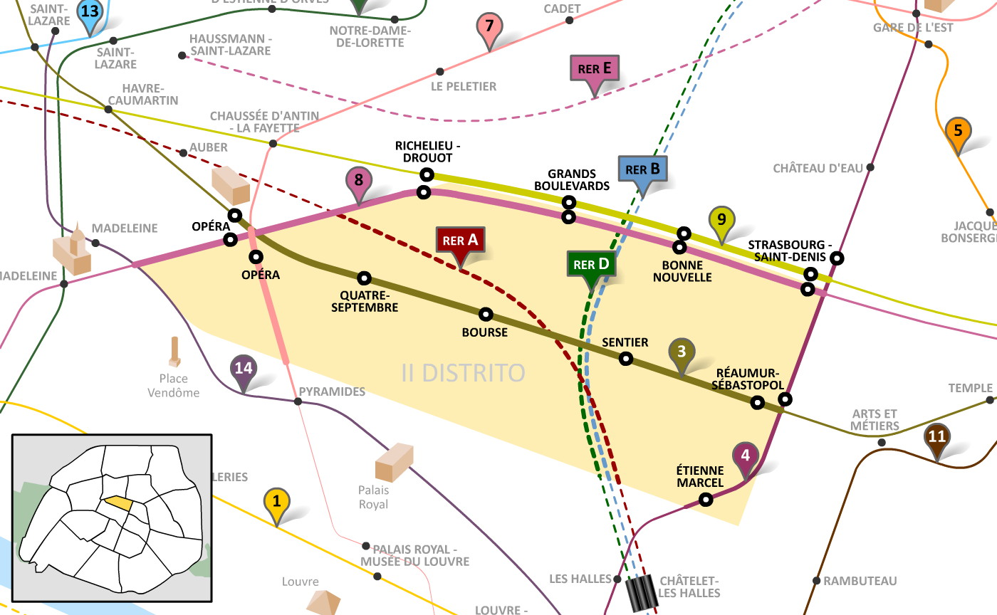 Paris (France) 2nd district, metro (subway) lines and RER. In spanish